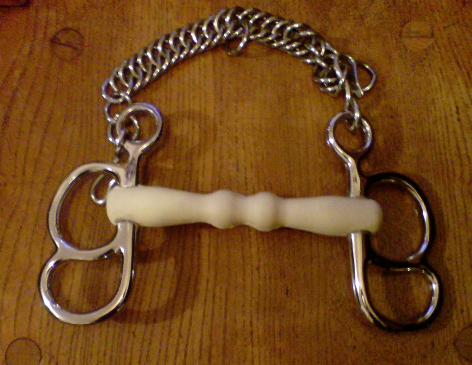 Fleximouth Butterfly Pelham bit with double-link curb chain